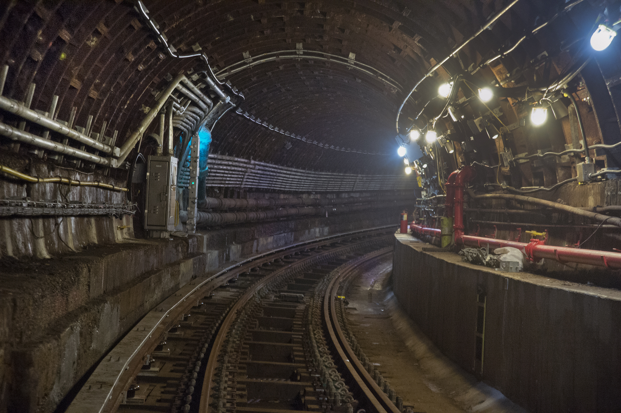 Fix&Fortify work to the R Subway Line Icon Montague Tubes has been completed. The restoring and rebuilding efforts began Friday, August 2 at 11:30 p.m. This was part of the most extensive and wide-ranging reconstruction effort in MTA history after Superstorm Sandy decimated the subway system.